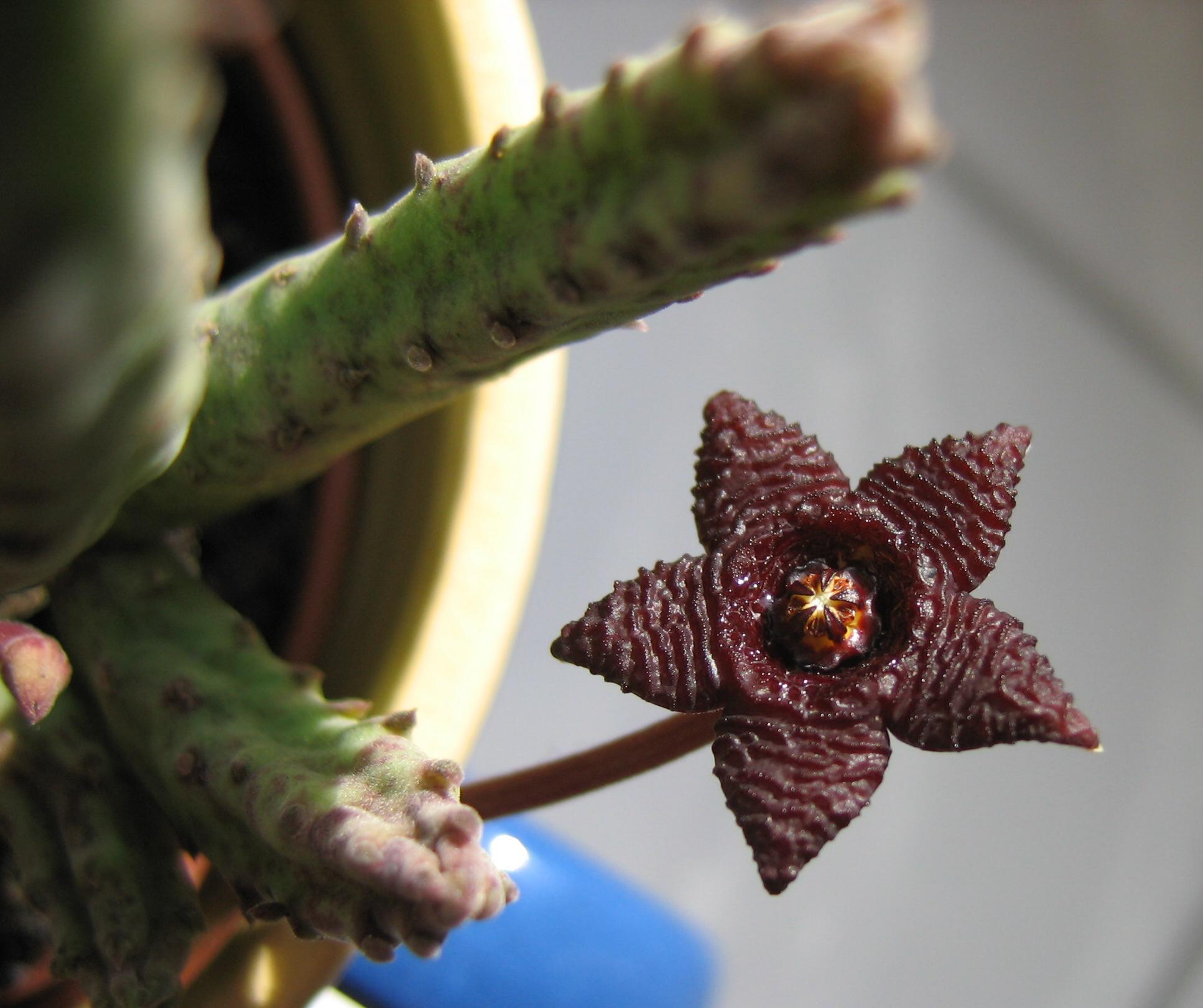 Flower of Stapelia similis